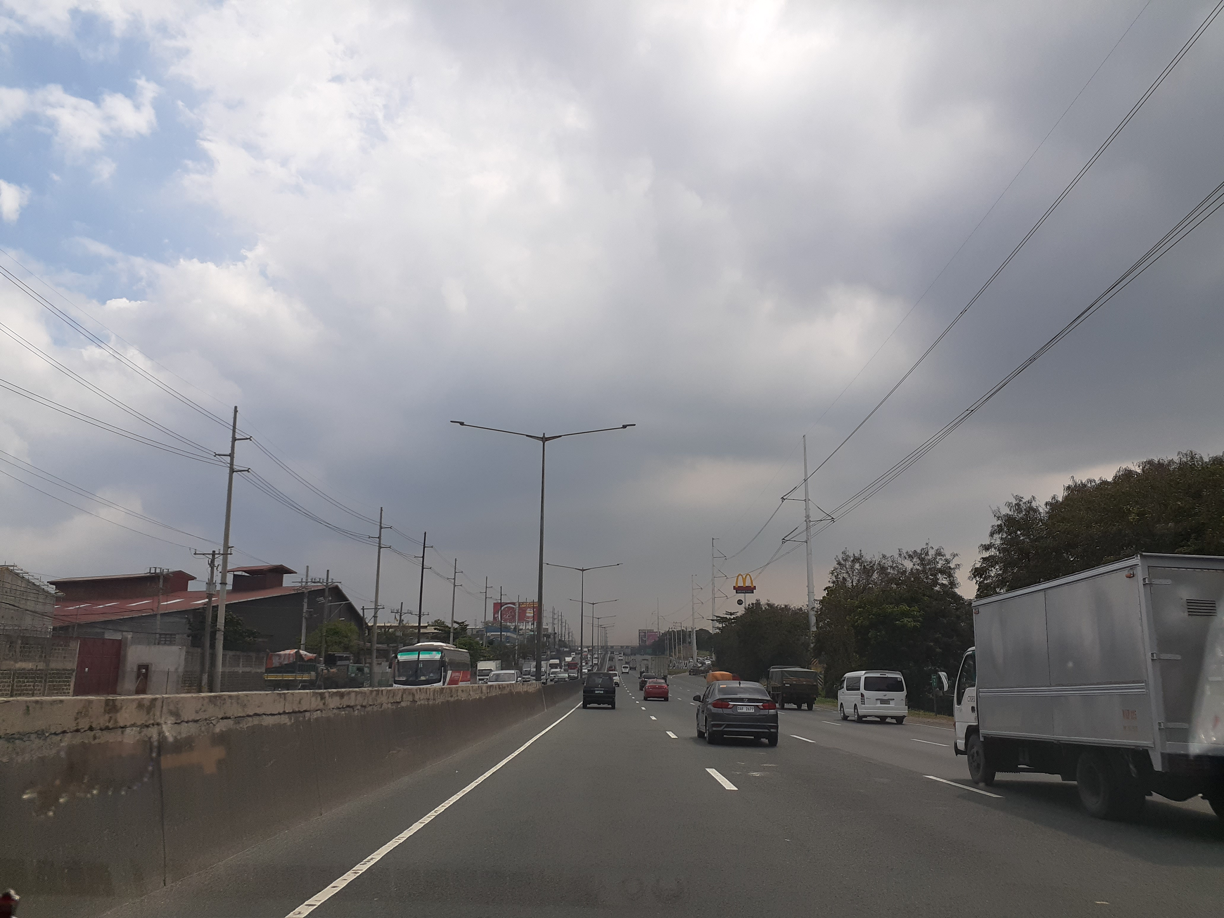 North Luzon Expressway. Southbound in the vicinity of barangays Lawang Bato and Lingunan, just after passing Dulalia overpass and Lingunan Exit.